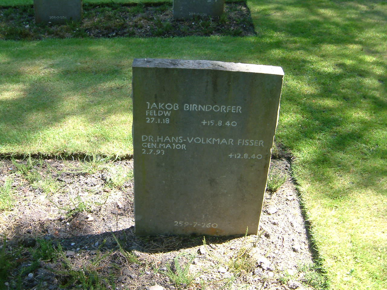 Graves of Jakob Birndorfer (1918-1940) and Hans-Volkmar Fisser (1893-1940), Deutscher Soldatenfriedhof Cannock Chase, Staffordshire, England (Block 7 Row 10 Graves 259 & 260)